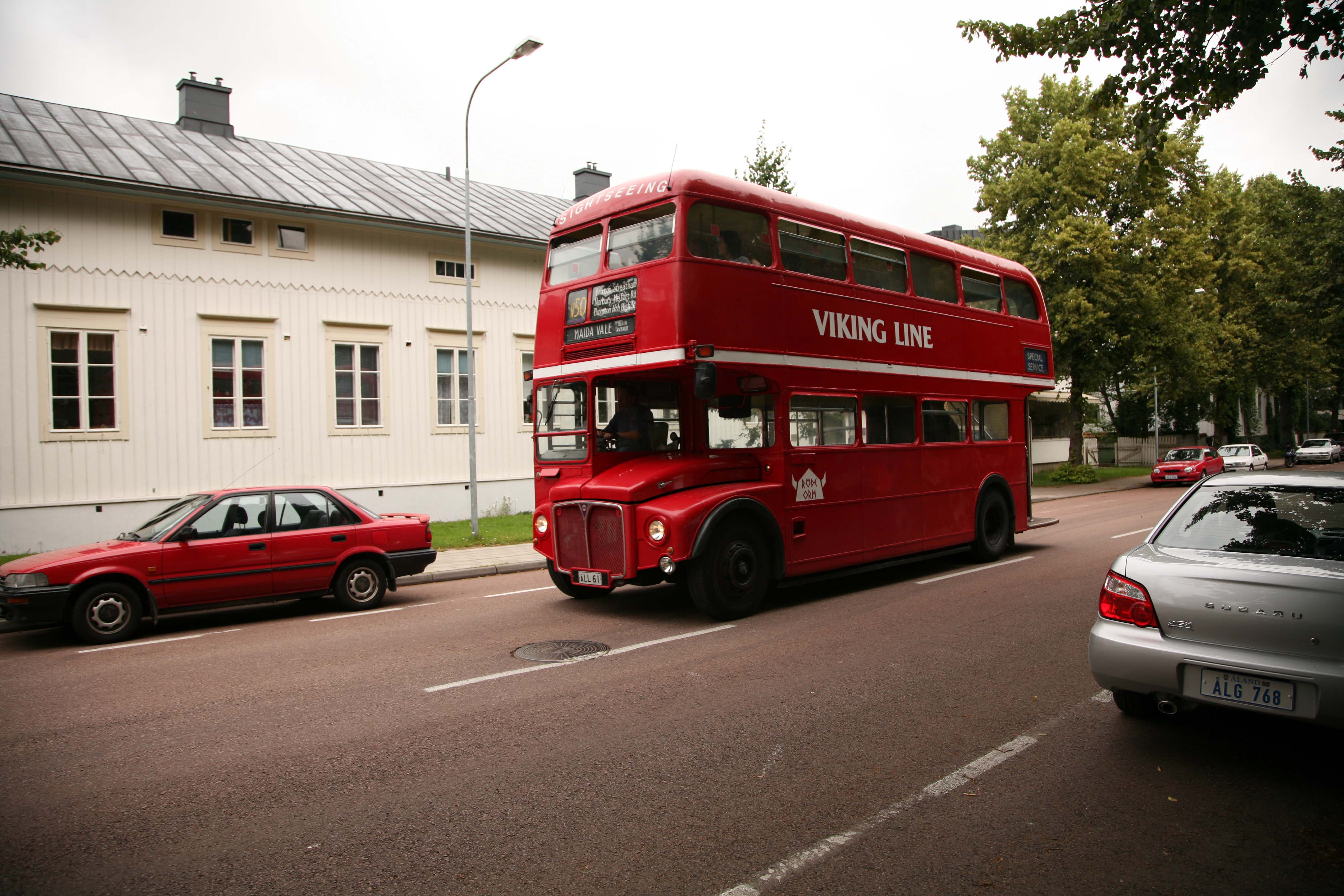 A new life for a London Routemaster bus, carrying tourists around Mariehamn.